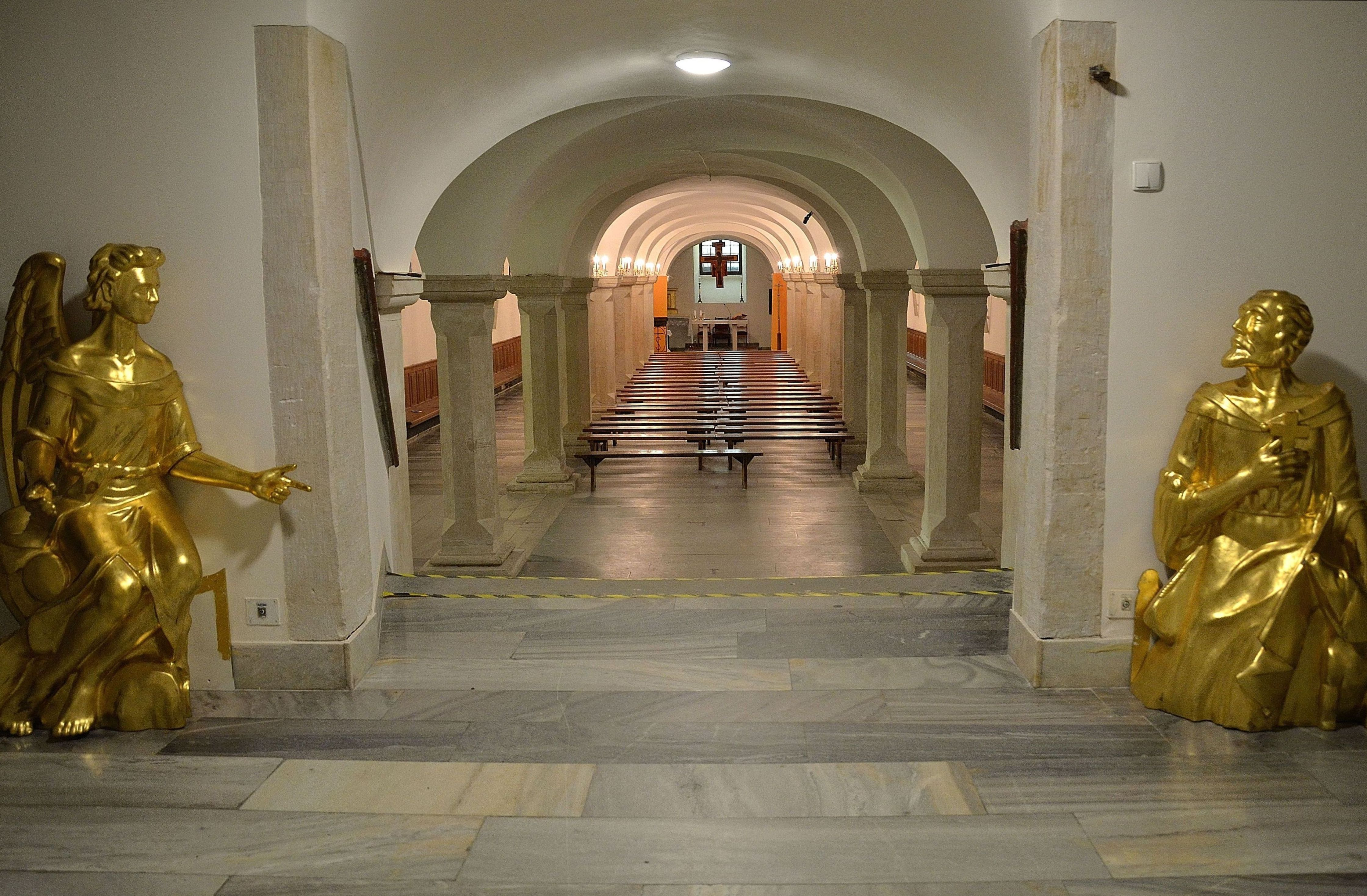 The lower church of the Holy Cross Basilica in Warsaw (listed in the Register of Historic Monuments on 1.07.1965, reference no. 207)